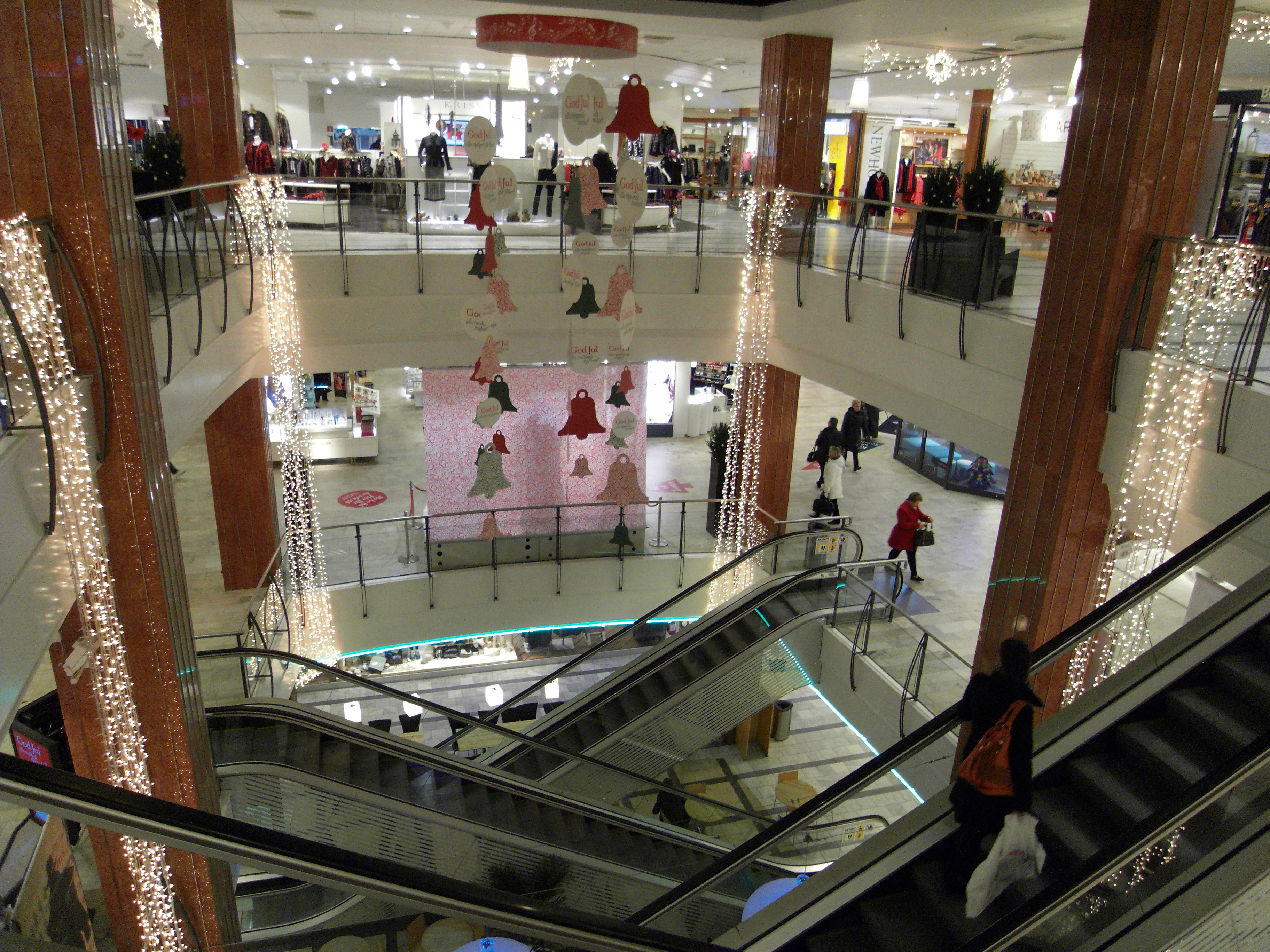 This is a part of the shopping mall Hansacompagniet in the city of Malmo seen from the highest floor inside. The picture is photographed 29 November 2013.